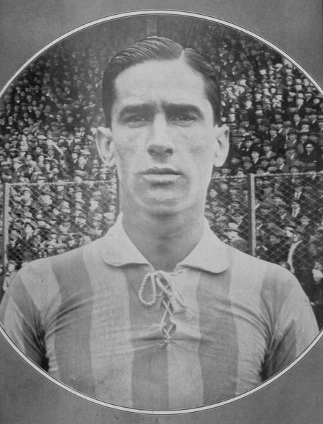 Pedro Ochoa, a notable player of Racing Club in 1925.